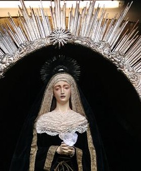 Nuestra Señora de los Dolores "La Genovesa"